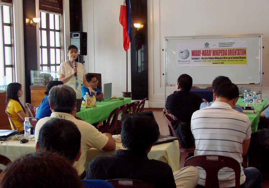 Philippine Information Agency 8 regional director Olive Tiu (standing) urged private media practitioners and members of the Association of Government Information Officers (AGIO) to be contributors to the Waray-waray Wikipedia – The first Filipino Wikipedia Meet-up in Eastern Visayas during an orientation at the Governor’s Hall, Leyte Provincial Capitol, Tacloban City. (Vino R. Cuayzon)